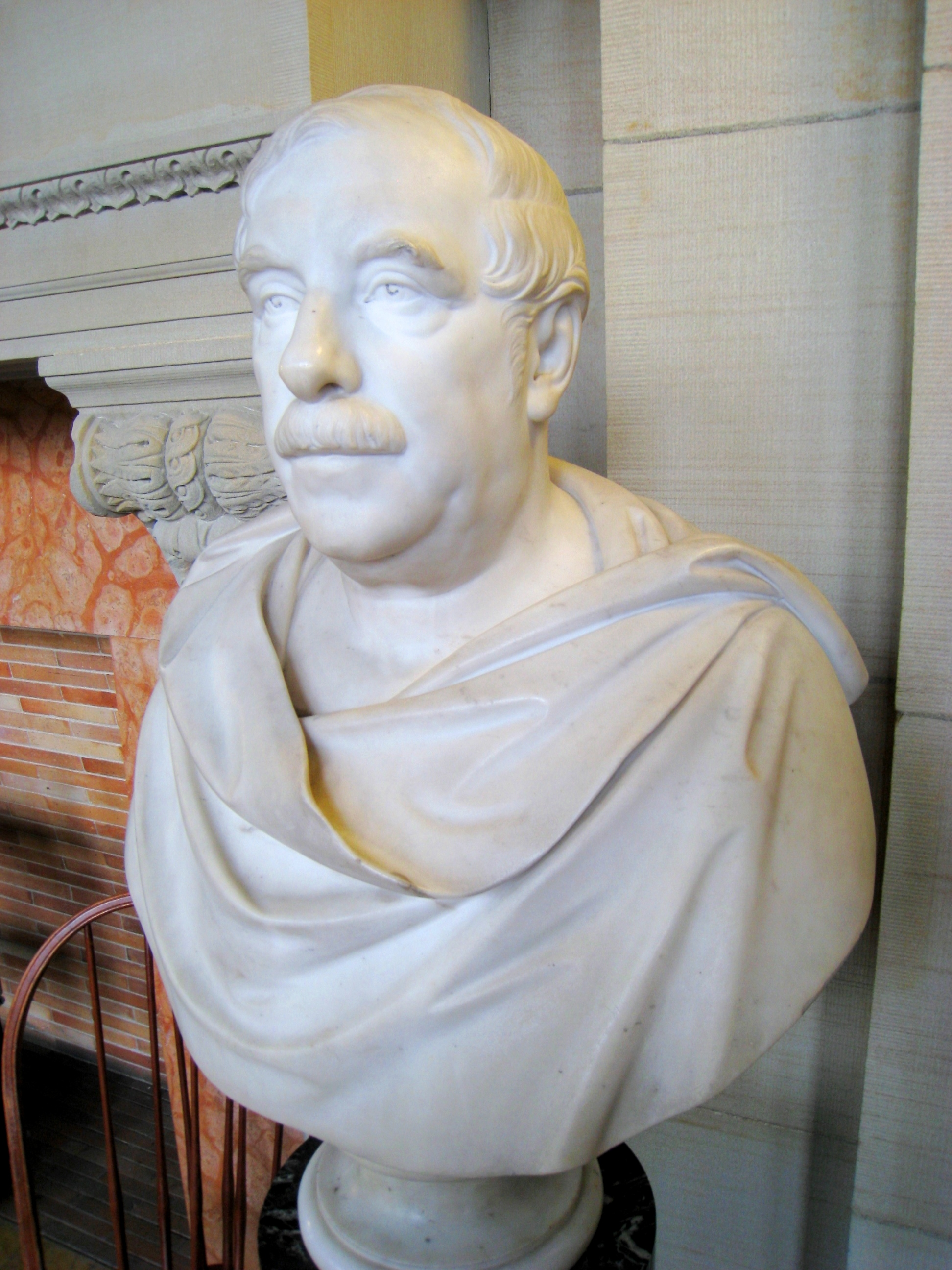 Thomas Gold Appleton (1812-1884), by Cantalamessa-Papotti, Boston Public Library, Boston, Massachusetts, USA. Copyright (if any) has expired on this work of art, as the author died more than 70 years ago.